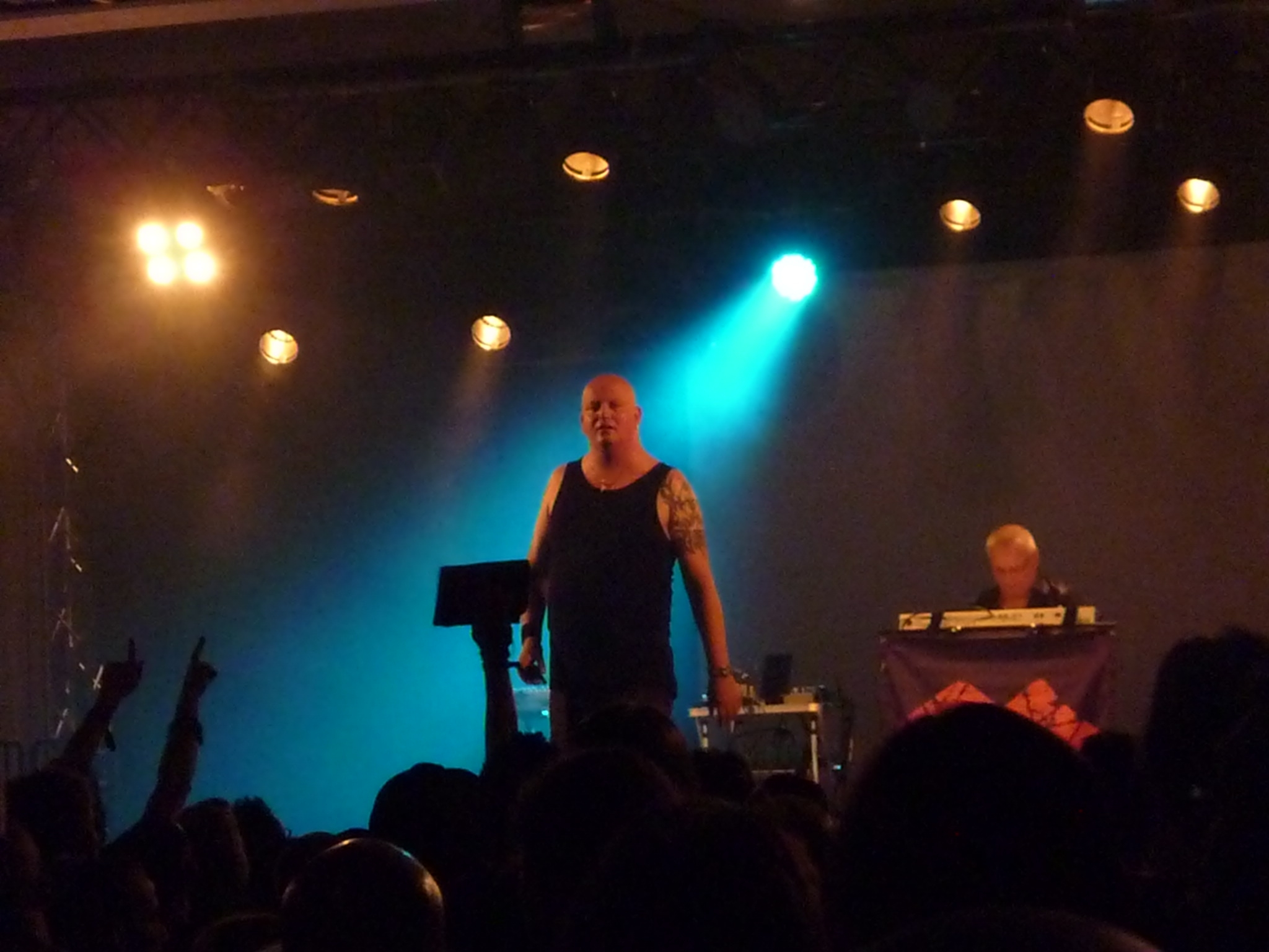 Leæther Strip live at the Amphi Festival 2011 in Cologne